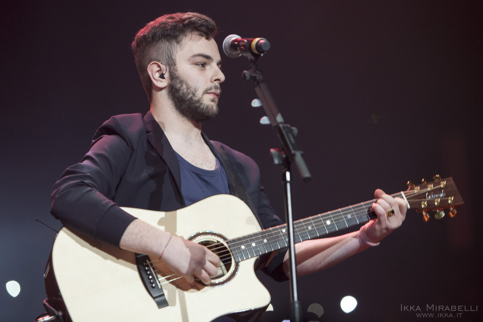 Lorenzo Fragola guest Fedez @ Mediolanum Forum 21/03/2015 © 2015 Ikka Mirabelli Visit my website: This image is copyright © Ikka Mirabelli. All right reserved. This photo must not be used under ANY circumstances without written consent.